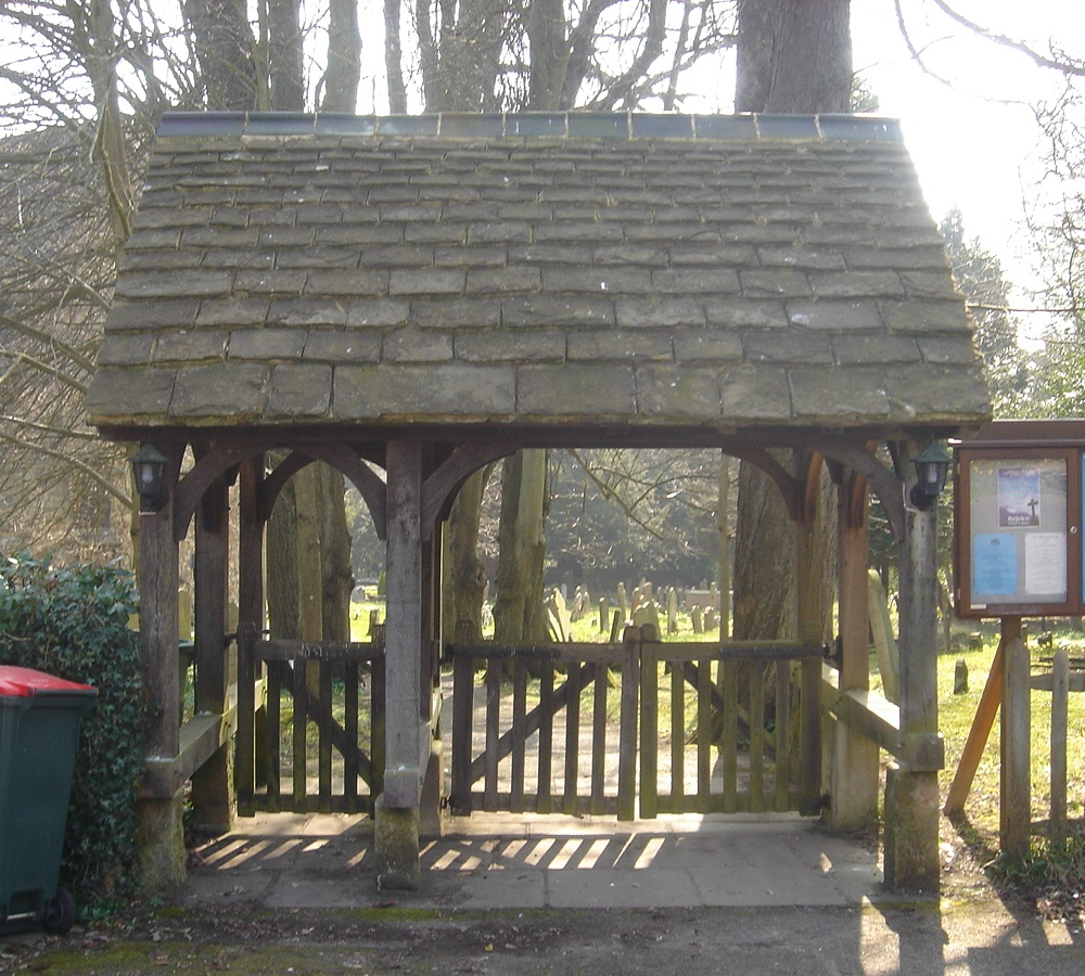 The lychgate at St Nicholas Church, Worth, Borough of Crawley, West Sussex, England. Listed at Grade II by English Heritage (IoE code 363410)